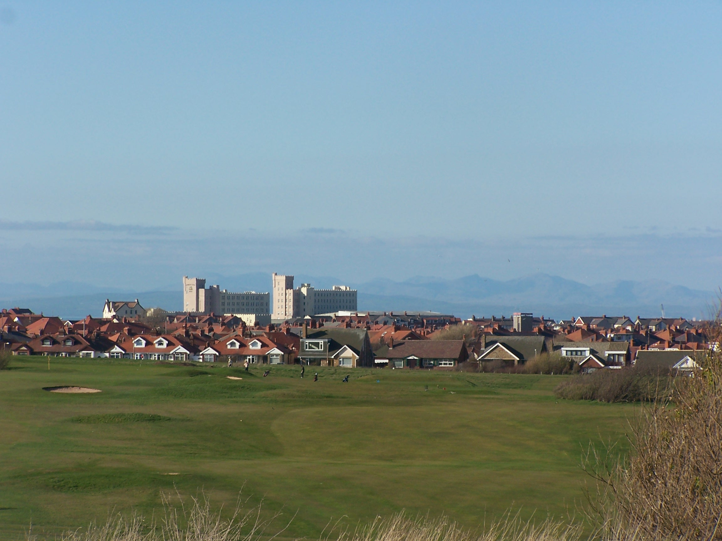 North Shore Golf Course, Bispham with views up to the hills of the Lake District. Photo taken by ♦Tangerines BFC ♦·Talk 01:10, 13 April 2007 (UTC) 12 on April, 2007